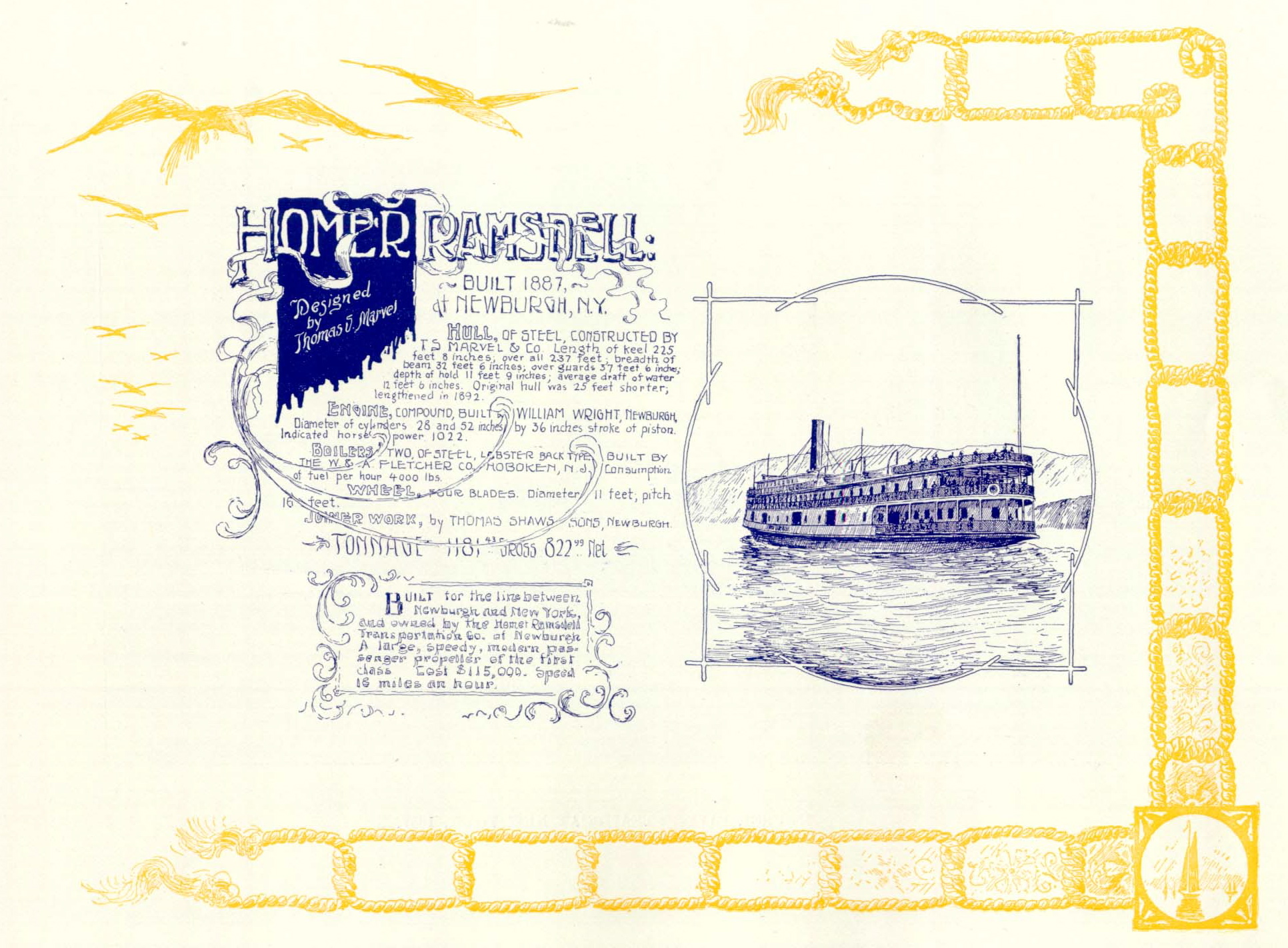 Homer Ramsdell, Hudson River steamboat built 1887.